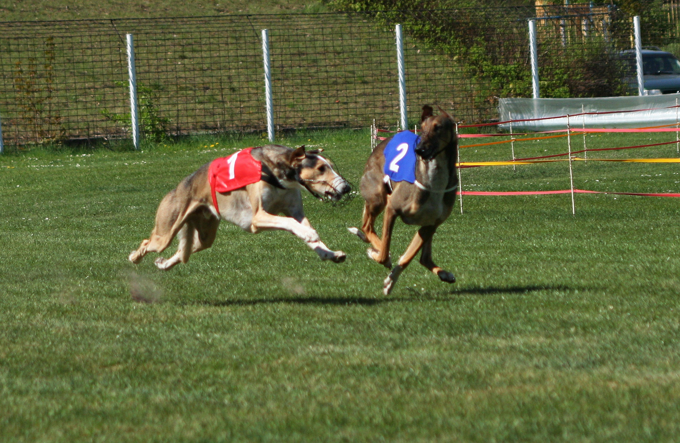 Polish Greyhounds during the dog's racing in Bytom - Szombierki, Poland.